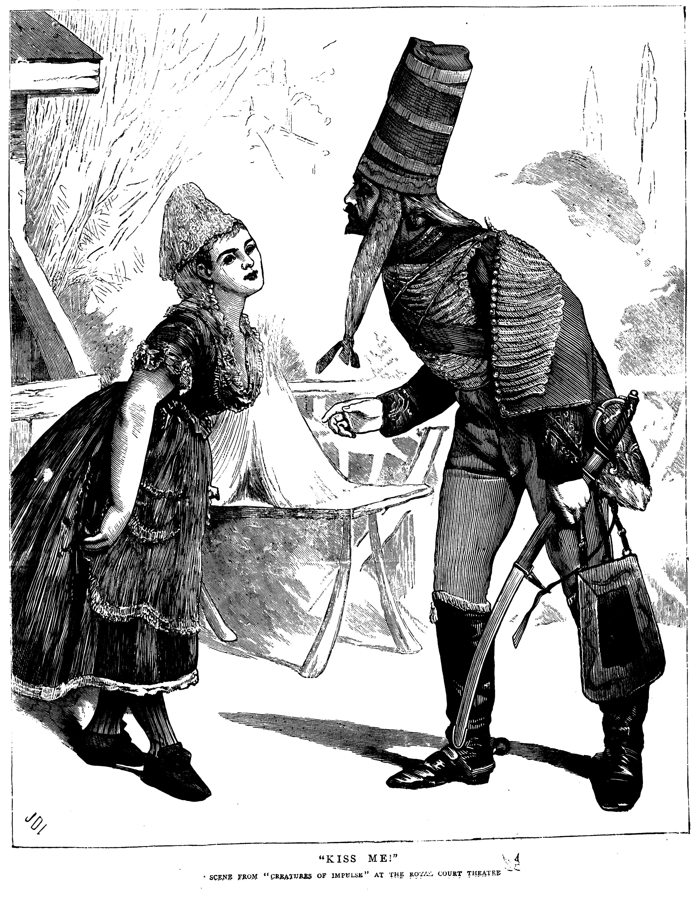 Original description: "Kiss Me!" An amusing fairy piece, entitled Creatures of Impulse, is at present being performed at the Royal Court Theatre. It is written by Mr. W. S. Gilbert, and is dramatised by him from a story which he wrote for the Christmas Number of The Graphic. For those who have not read the story or seen the play a few words in explanation of our picture may be advisable. A strange old lady is staying at an inn, and as she neither eats, drinks, nor pays the landlady is anxious to get rid of her. Various friends of the landlady undertake in turn to get her out of the house..." [Plot summary follows]